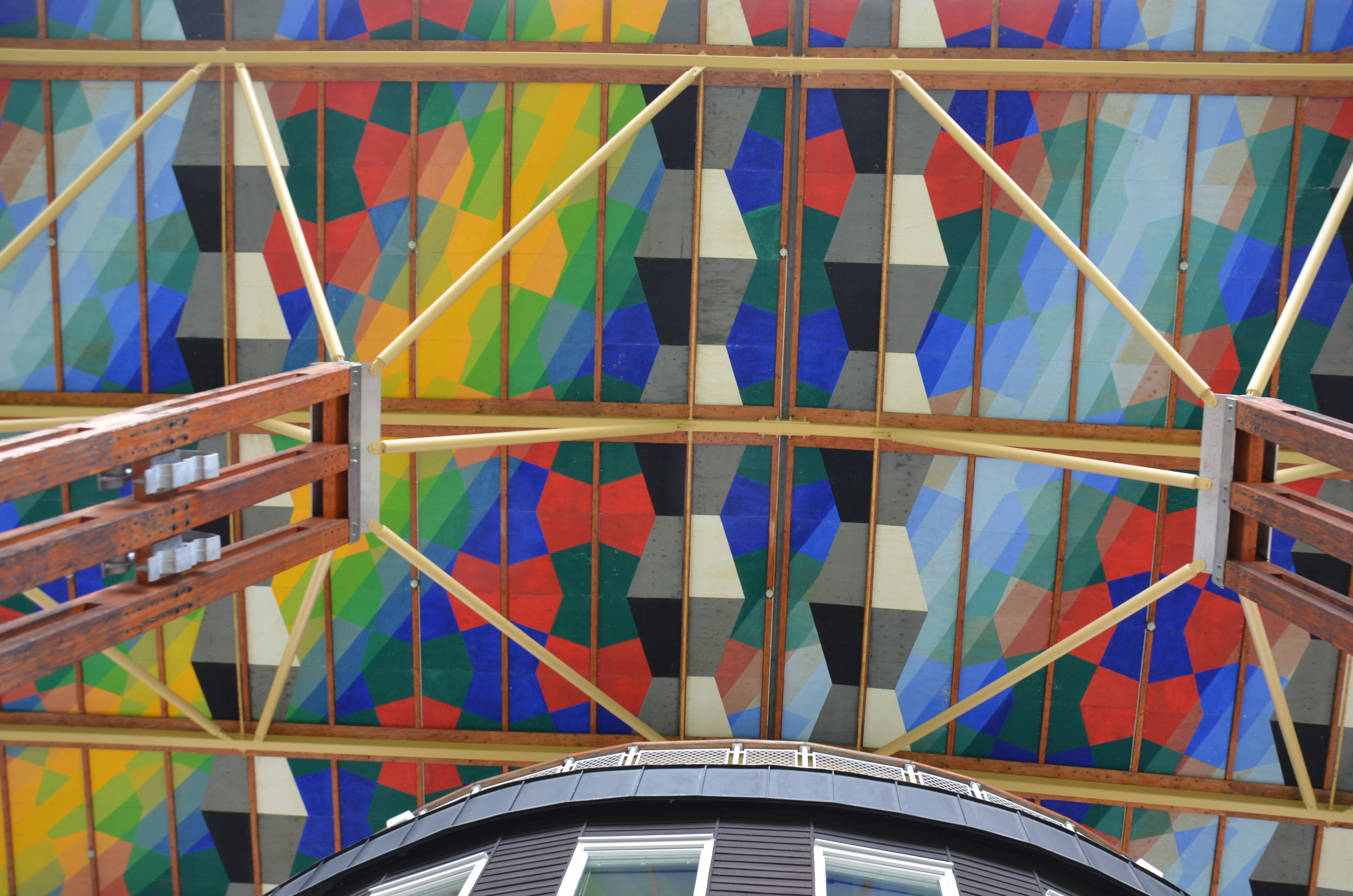 Målning på insidan av skärmen framför Måltidens hus